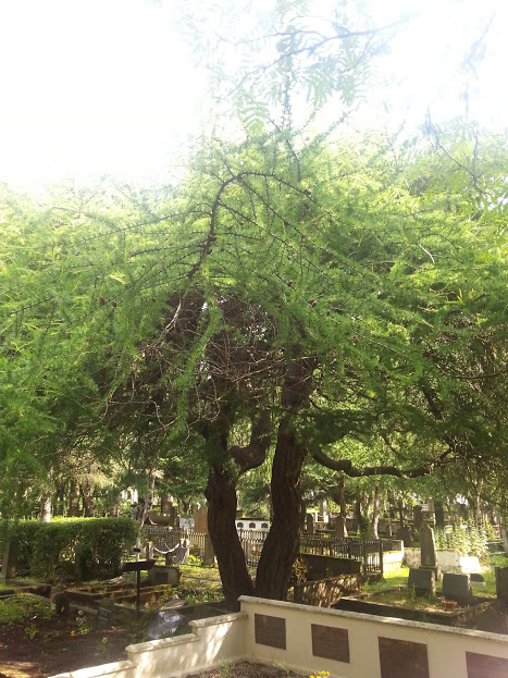 Larix decidua